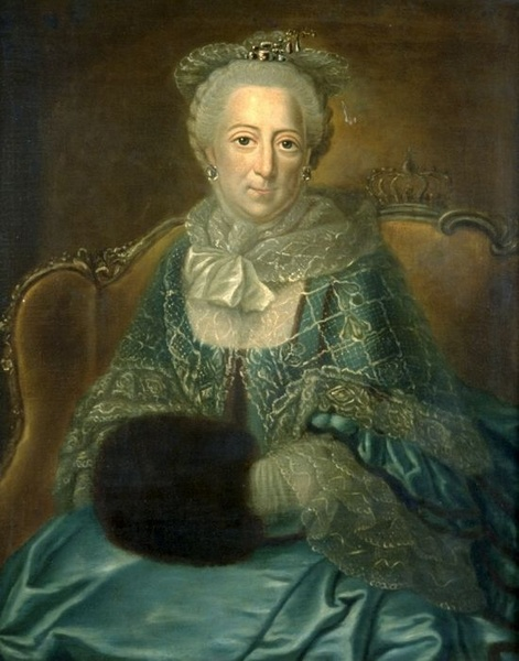 Portrait of Princess Philippine Charlotte of Prussia (1716-1801)